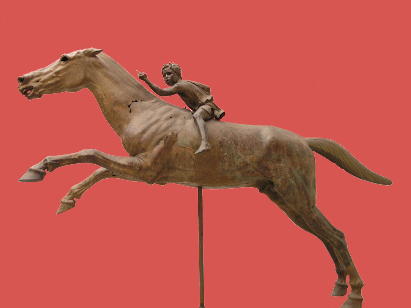 So-called Artemision jockey. Bronze, ca. 140 BC. Recovered from the sea near Cape Artemision in Euboea.